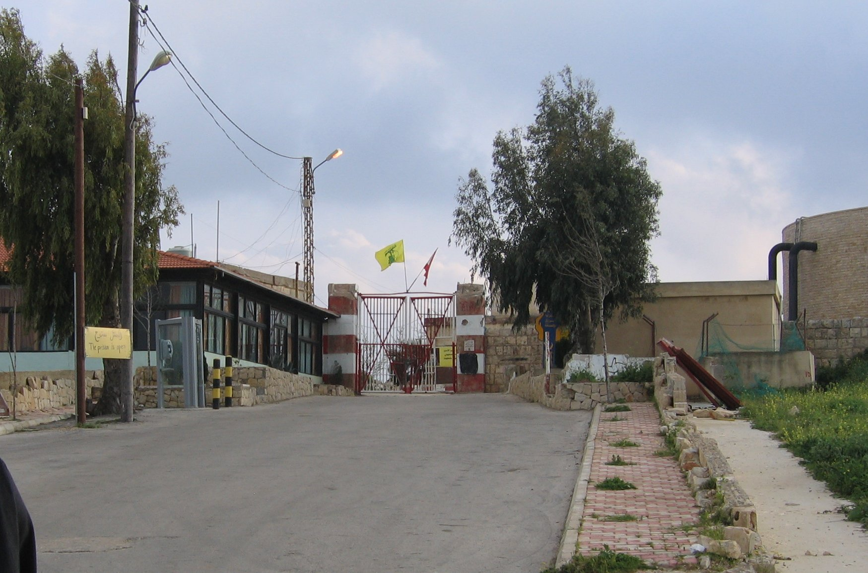 Entrance to the former detention camp Khiam, Lebanon (2009)